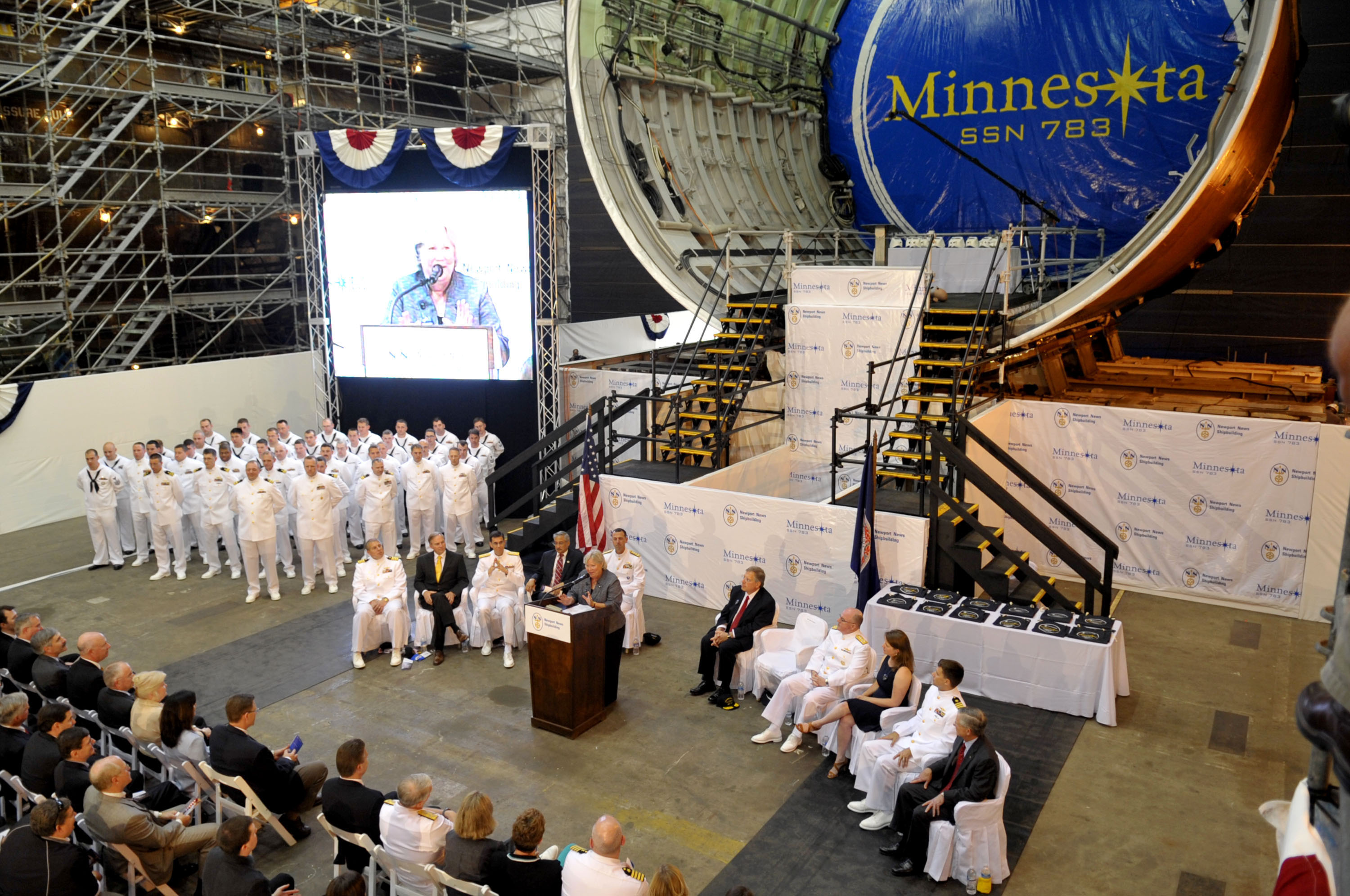 NEWPORT NEWS, Va. (May 20, 2011) Ellen Roughead, wife of Chief of Naval Operations Adm. Gary Roughead, and sponsor or the tenth Virginia-class submarine Pre-commissioning Unit (PCU) Minnesota (SSN 783), delivers her remarks during the boat's keel laying ceremony. (U.S. Navy photo by Chief Mass Communication Specialist Tiffini Jones Vanderwyst/Released)